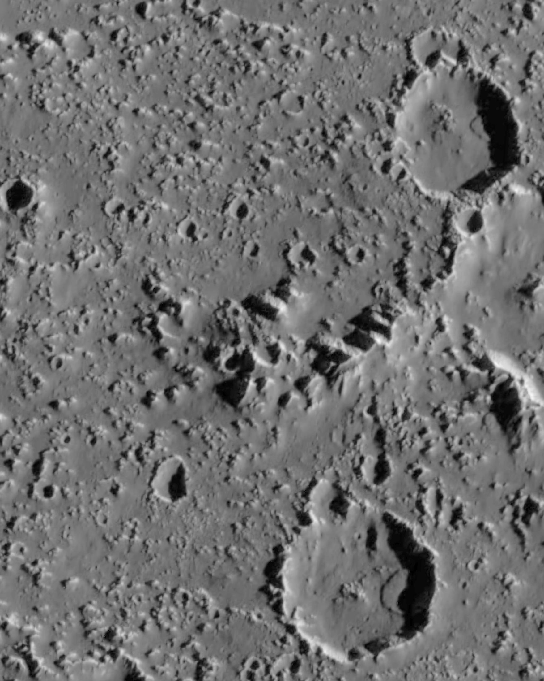 Recent Galileo images of the surface of Jupiter's moon Callisto have revealed large landslide deposits within two large impact craters seen in the right side of this image. The two landslides are about 3 to 3.5 kilometers (1.8 to 2.1 miles) in length. They occurred when material from the crater wall failed under the influence of gravity, perhaps aided by seismic disturbances from nearby impacts. This image was acquired on September 16th, 1997 by the Solid State Imaging (CCD) system on NASA's Galileo spacecraft, during the spacecraft's tenth orbit around Jupiter. North is to the top of the image, with the sun illuminating the scene from the right. The center of this image is located near 25.3 degrees north latitude, 141.3 degrees west longitude. The image, which is 55 kilometers (33 miles) by 44 kilometers (26 miles) across, was acquired at a resolution of 100 meters per picture element.